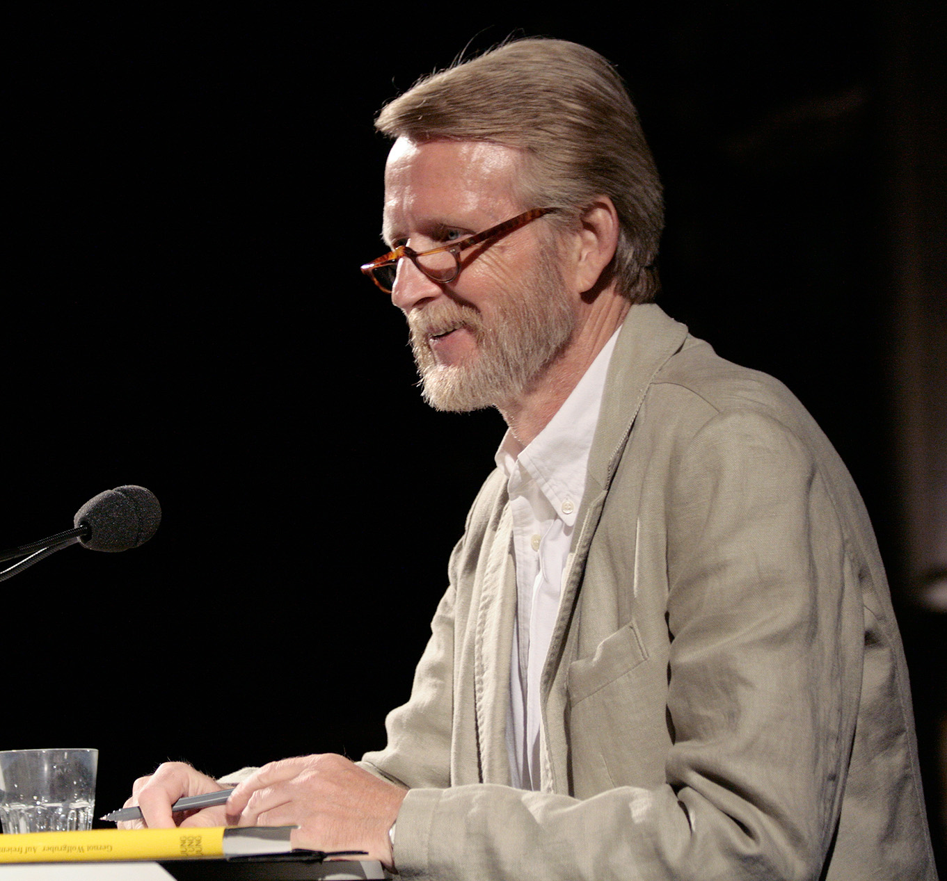 Writer Gernot Wolfgruber; reading at the literary festival O-Töne at the Museumsquartier in Vienna